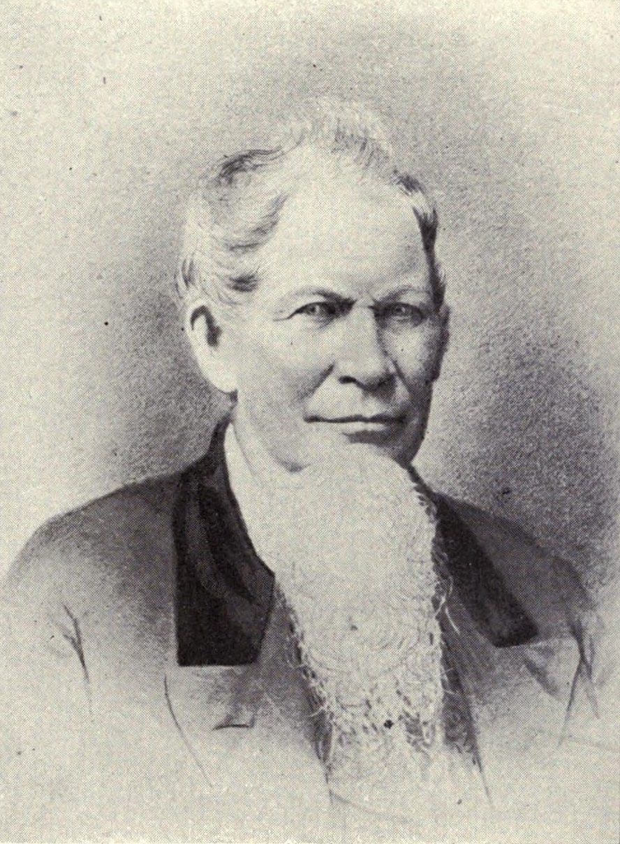 Lorrin Andrews (1795 - 1868) was an early American missionary to Hawaii and judge (despite having no formal law training). His grandson Lorrin A. Thurston would lead the overthrow of the Kingdom of Hawaii in 1893.